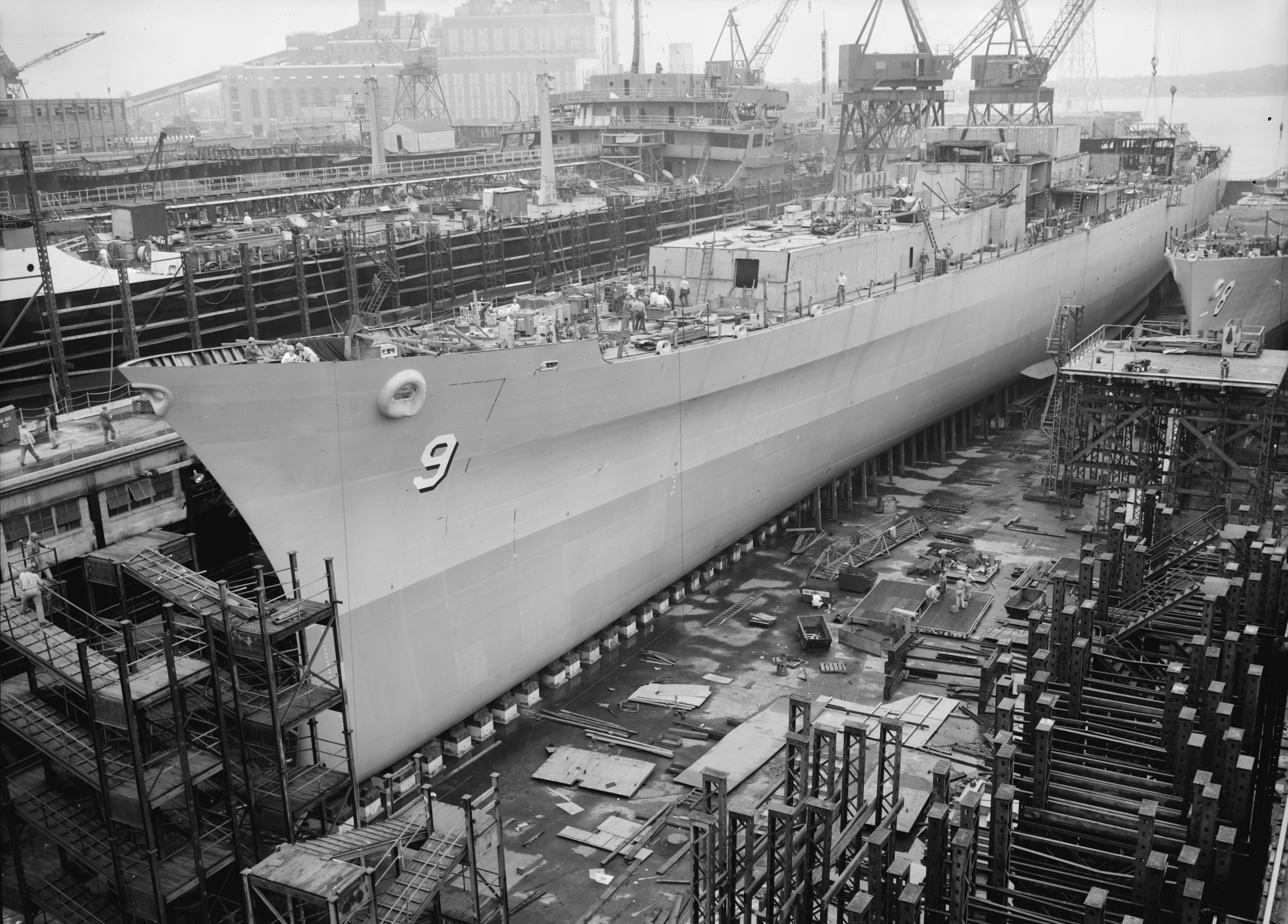 The U.S. Navy nuclear-powered guided missile cruiser USS Long Beach (CGN-9) under constuction at the Bethlehem Steel Coompany's Fore River Shipyard, Quincy, Massachusetts (USA), on 2 July 1959. The guided missile destroyer USS Macdonough (DLG-8) is visble on the right. Macdonough was launched on 9 July, Long Beach on 14 July 1959.